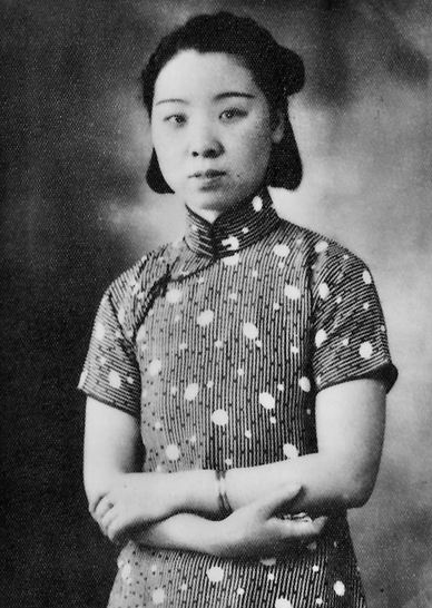 chensuzhen